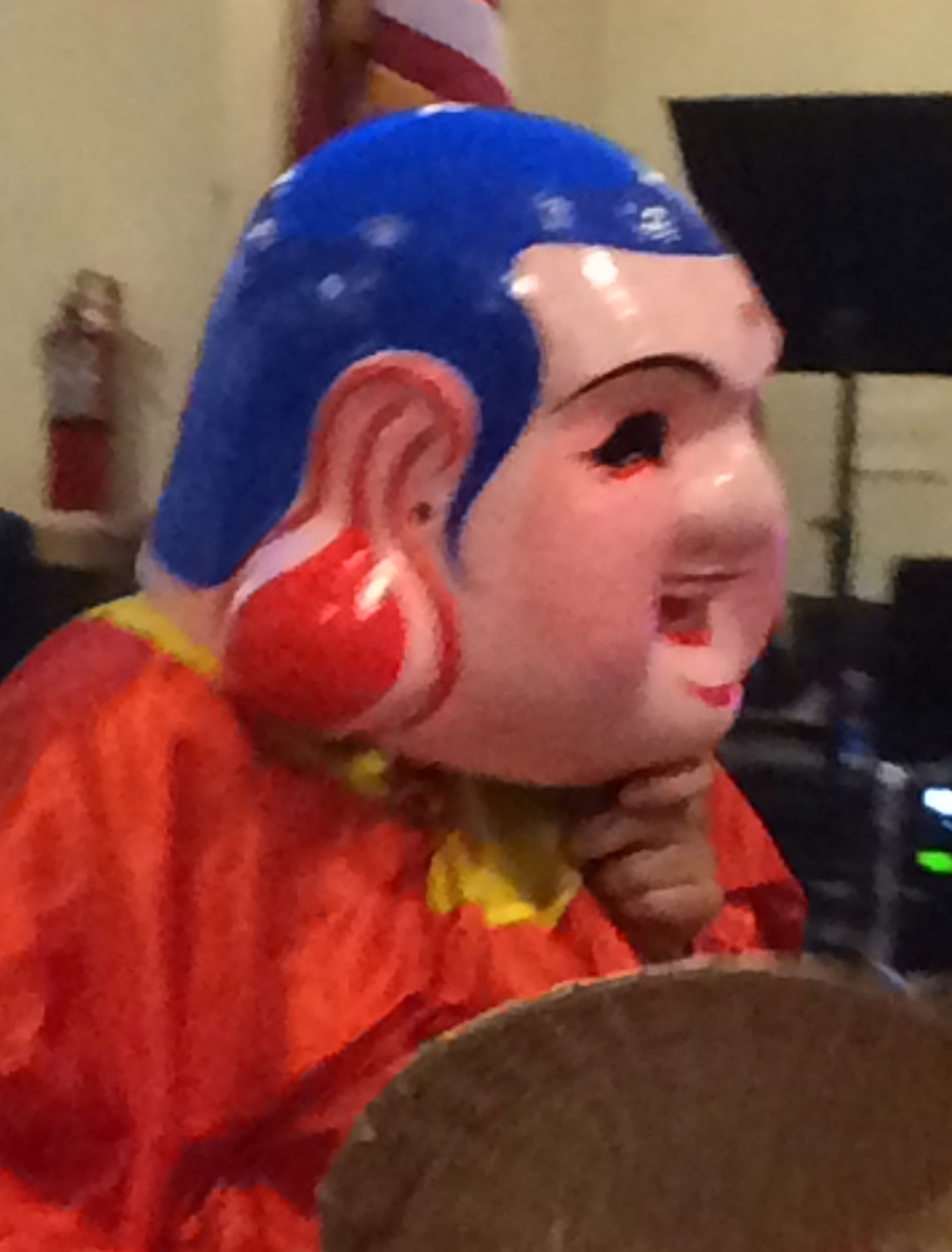 Ông Địa, the spirit of the Earth, depicted in Vietnamese popular belief as a rotund, mirthful and generous figure. During Tết, he appears with in the unicorn dance as the human factor calming the mythical beast, the unicorn.